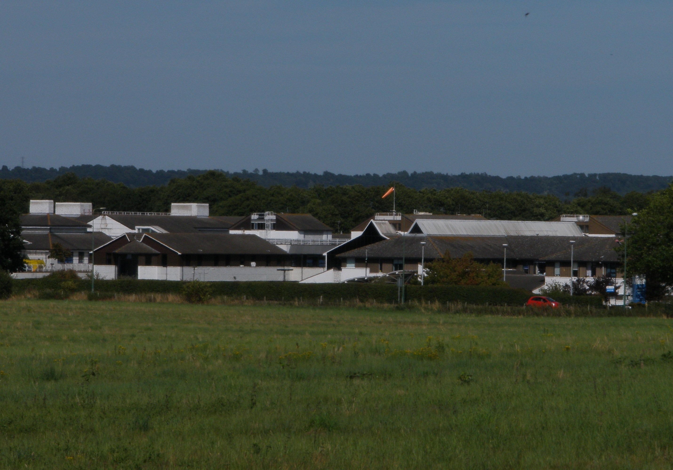 Maidstone Hospital viewed from fields to the West